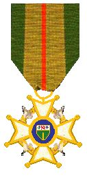 Legion of Merit, Military Division, Officer, Rhodesia 1971